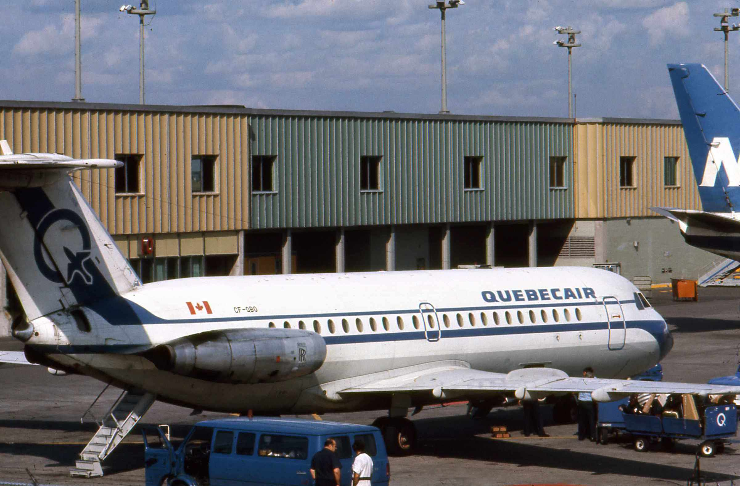 Quebecair one of the BAC 1-11-304AX, c/n 112, delivered to British Eagle on May 5, 1967 as G-ATPI.